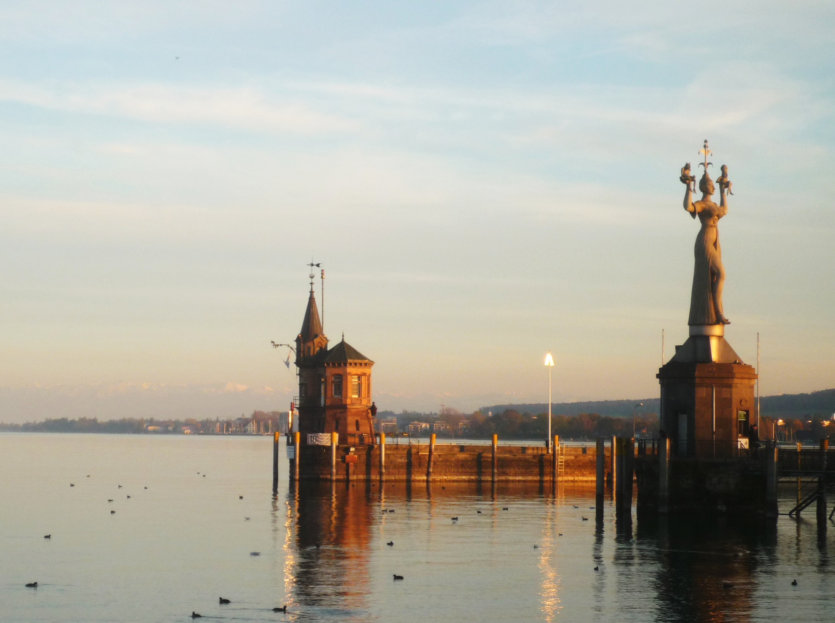 The sculpture "Imperia" of City Constance, BDW,Germany with a view towards Lake Constance and Switzerland.